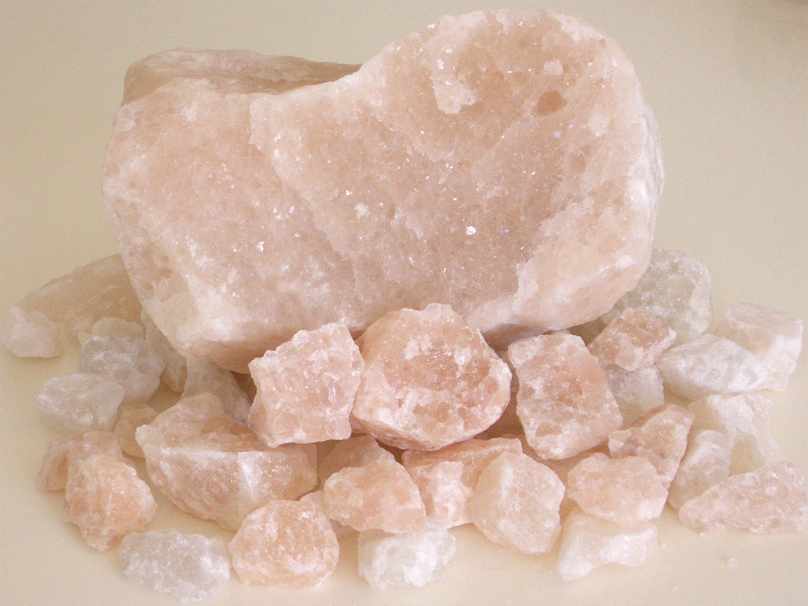 Mongolian rock salt from Uvs Nuur Basin, Mongolia. Mongolian name is "Jamts Davs".